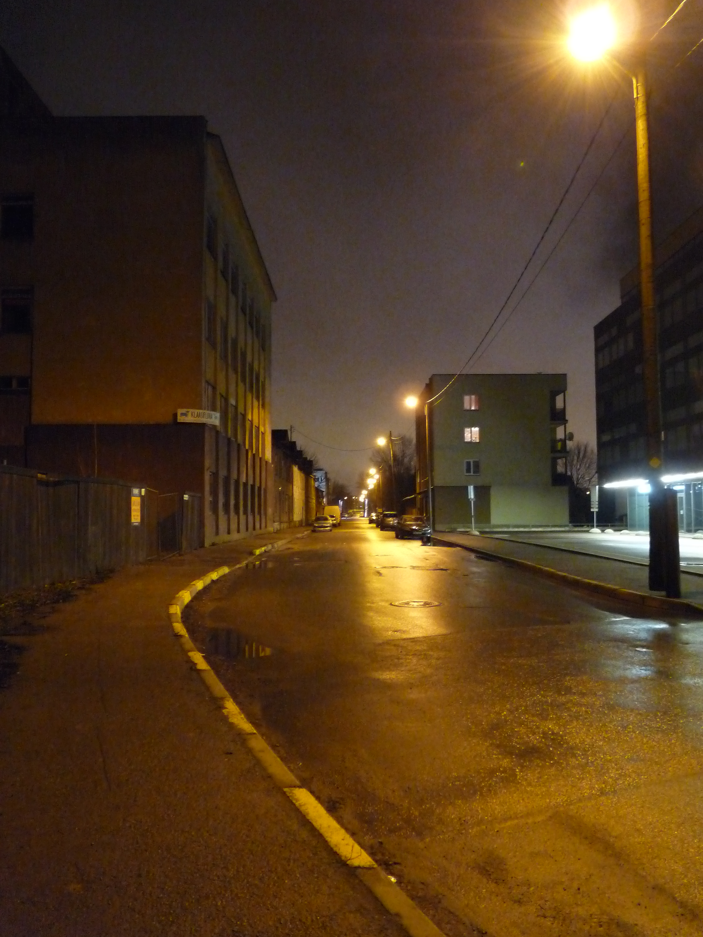 Katusepapi street in Tallinn, Estonia